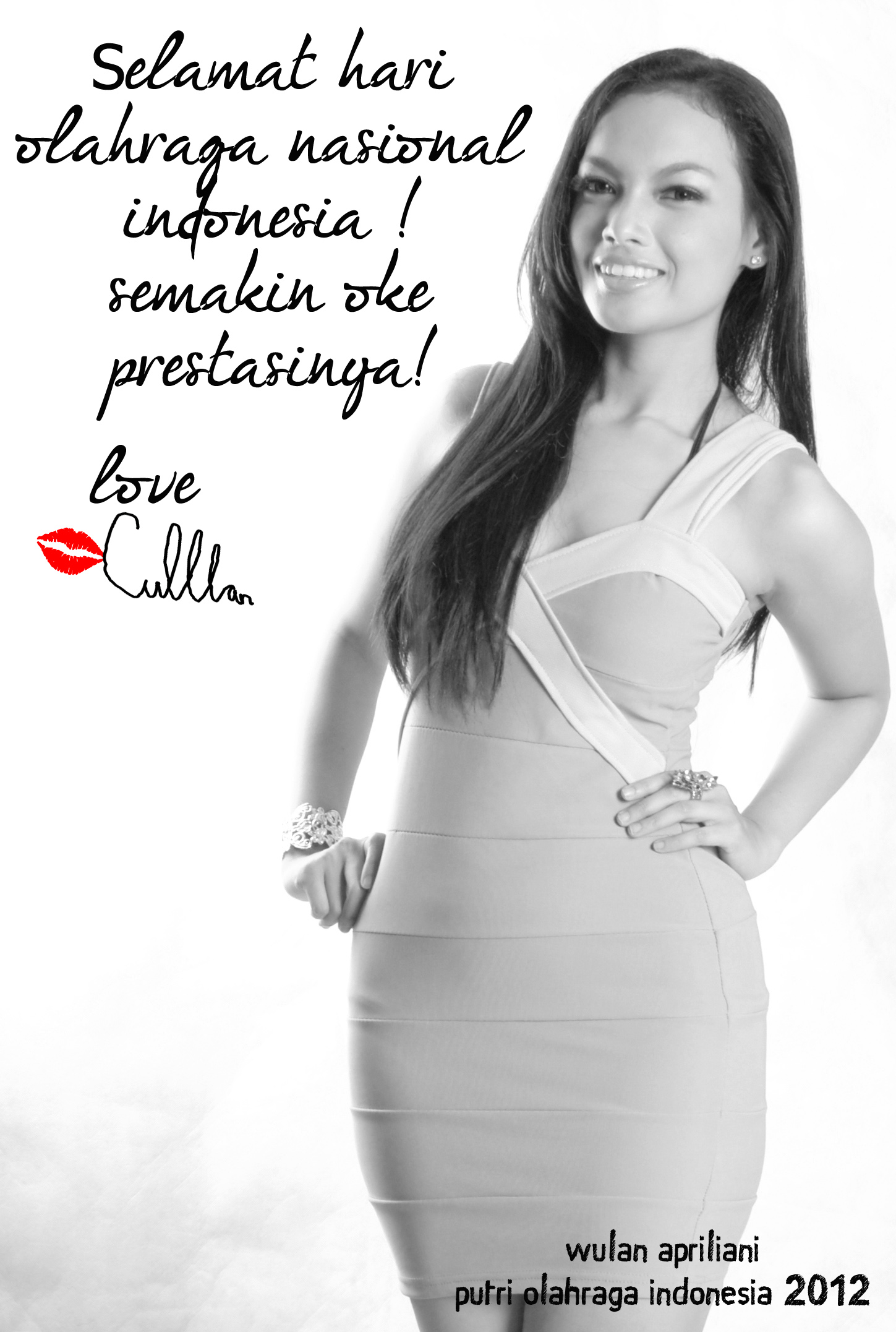 Greetings for Indonesian sport day